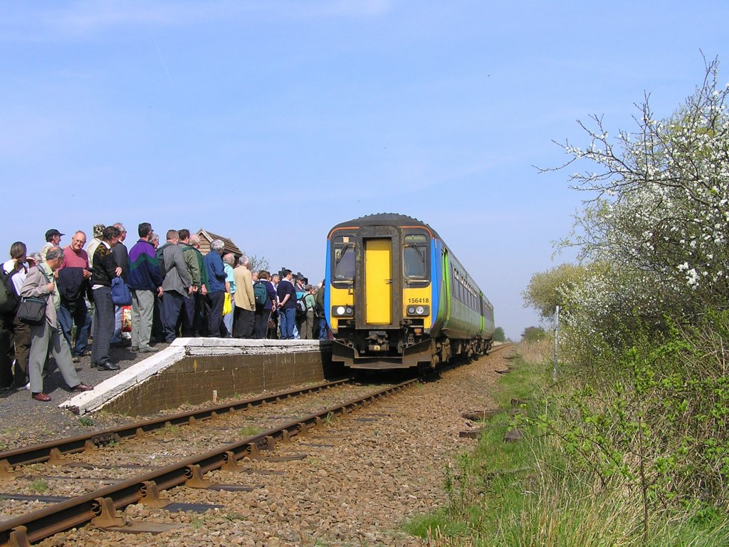 Berney Arms railway station on a busy day; 64 passengers embark on a class 156 diesel multiple unit for Norwich as part of a Rail Ale Ramble organised by Crookham Travel